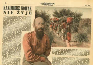 "Kazimierz Nowak id dead" - an article from "Na szerokim świecie" magazin, 1937. Kazimierz Nowak (1897-1937) - a Polish traveller, correspondent and photographer. Probably the first man in the world who crossed Africa alone from the North to the South and from the South to the North (from 1931 to 1936; on foot, by bicycle and canoe).